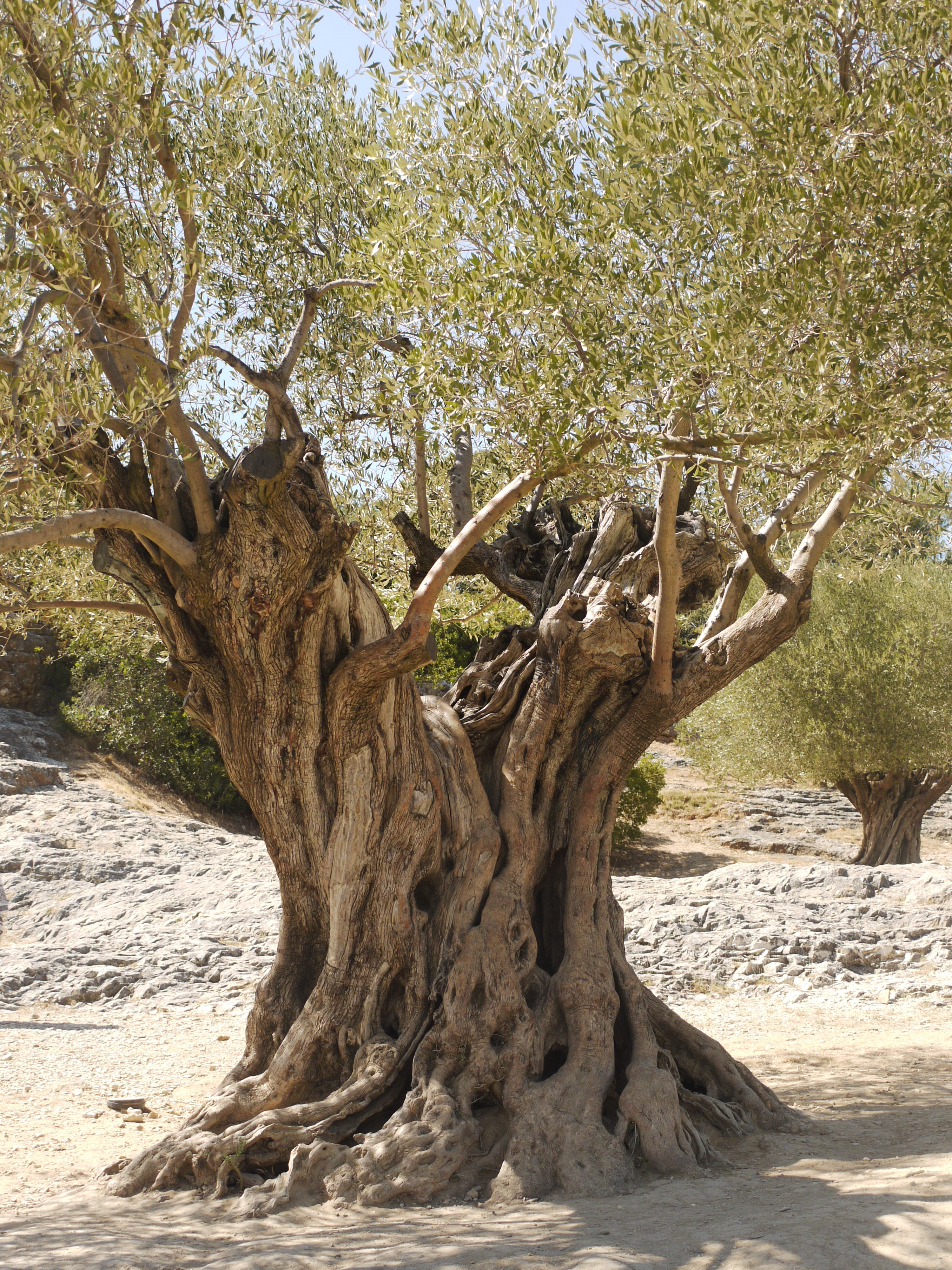 An olive tree